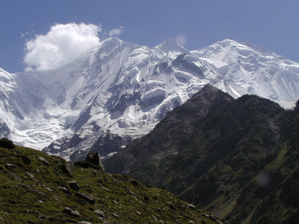 Rakaposhi peak (7,788m), as seen from Tagafari base camp Nagar valley. Image by Waqas Usman. More images at and